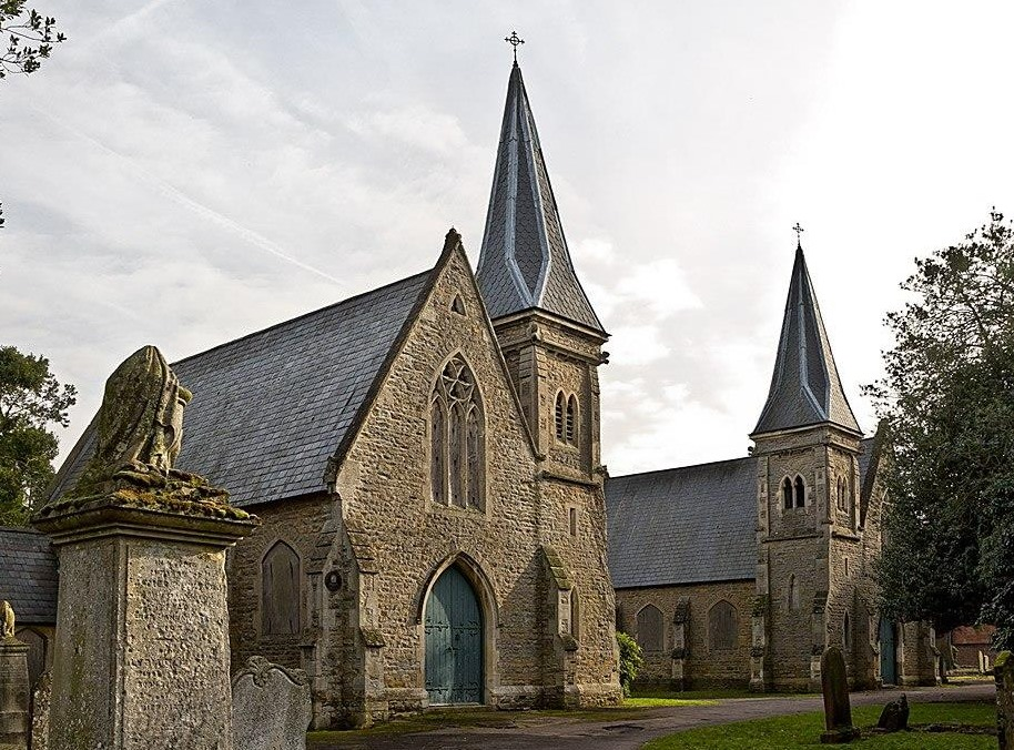 Wellingborough Church of England mortuary chapel c.1857-58, London Road cemetery. Listed Grade: II